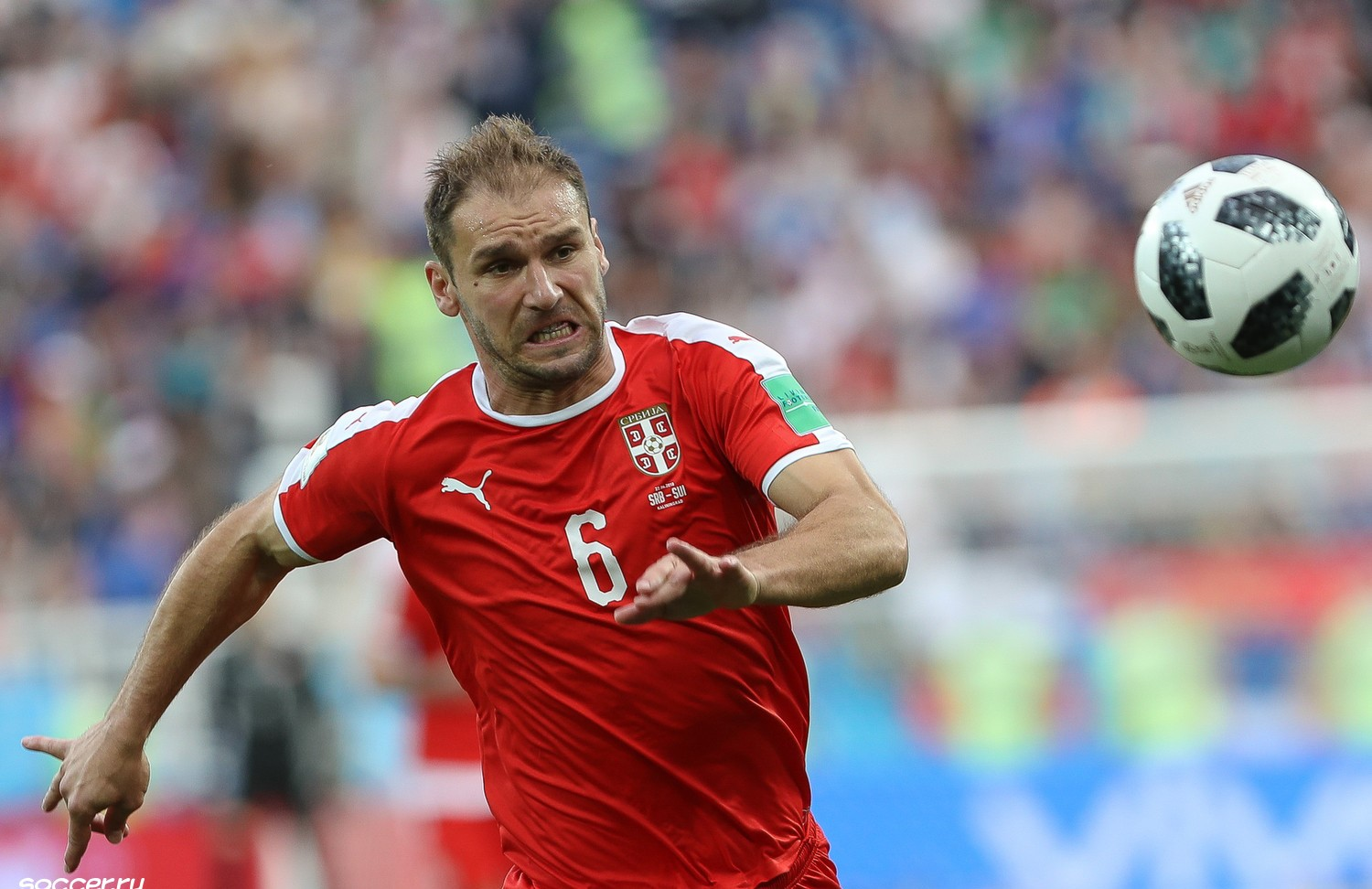 Branislav Ivanović